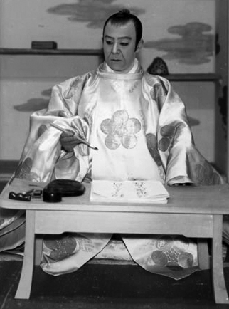 Kikugorō Onoe VI (1885–1949) as Kan Shōjō, in Sugawara Denju Tenarai Kagami